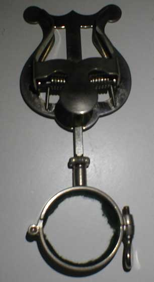 the noteholder for a Bb clarinet